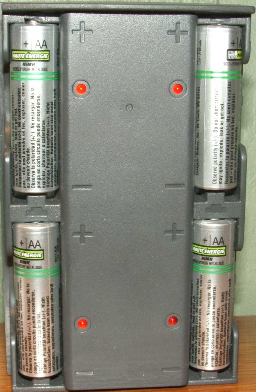 Rayovac smart battery charger